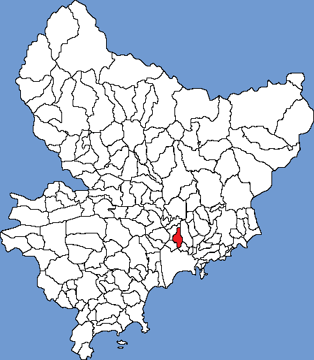 The position of the municipality of Aspremont in the departement of Alpes-Maritimes